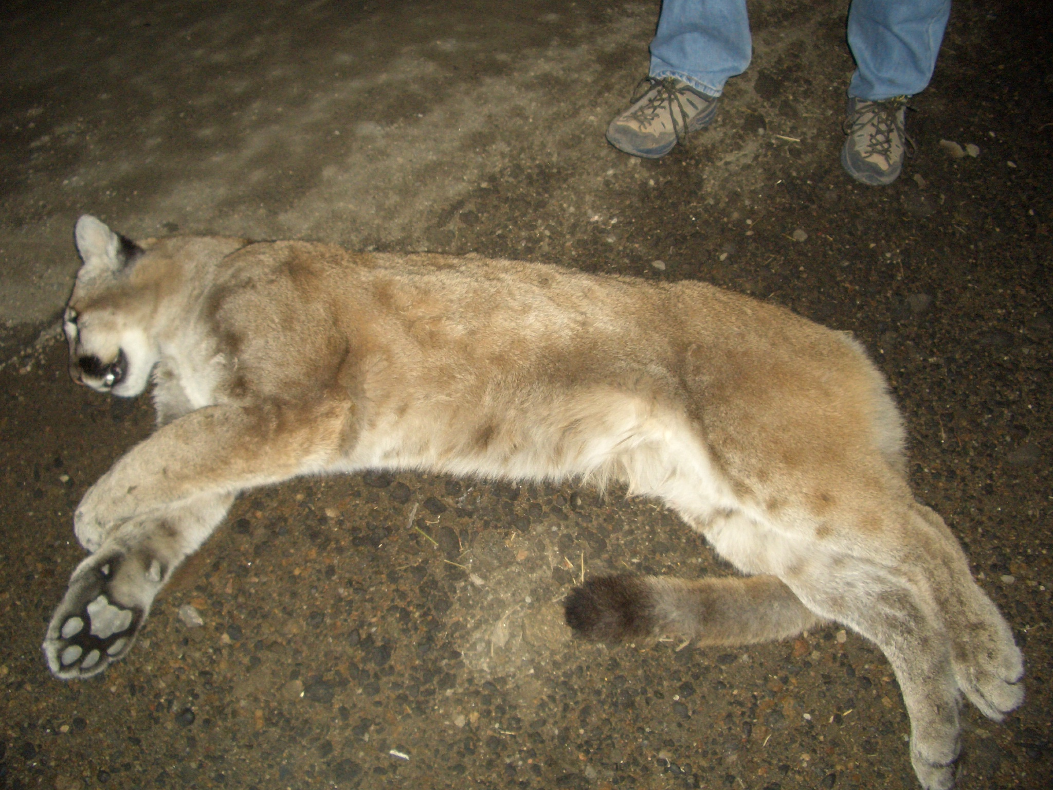 A hit mountain lion (Puma concolor).